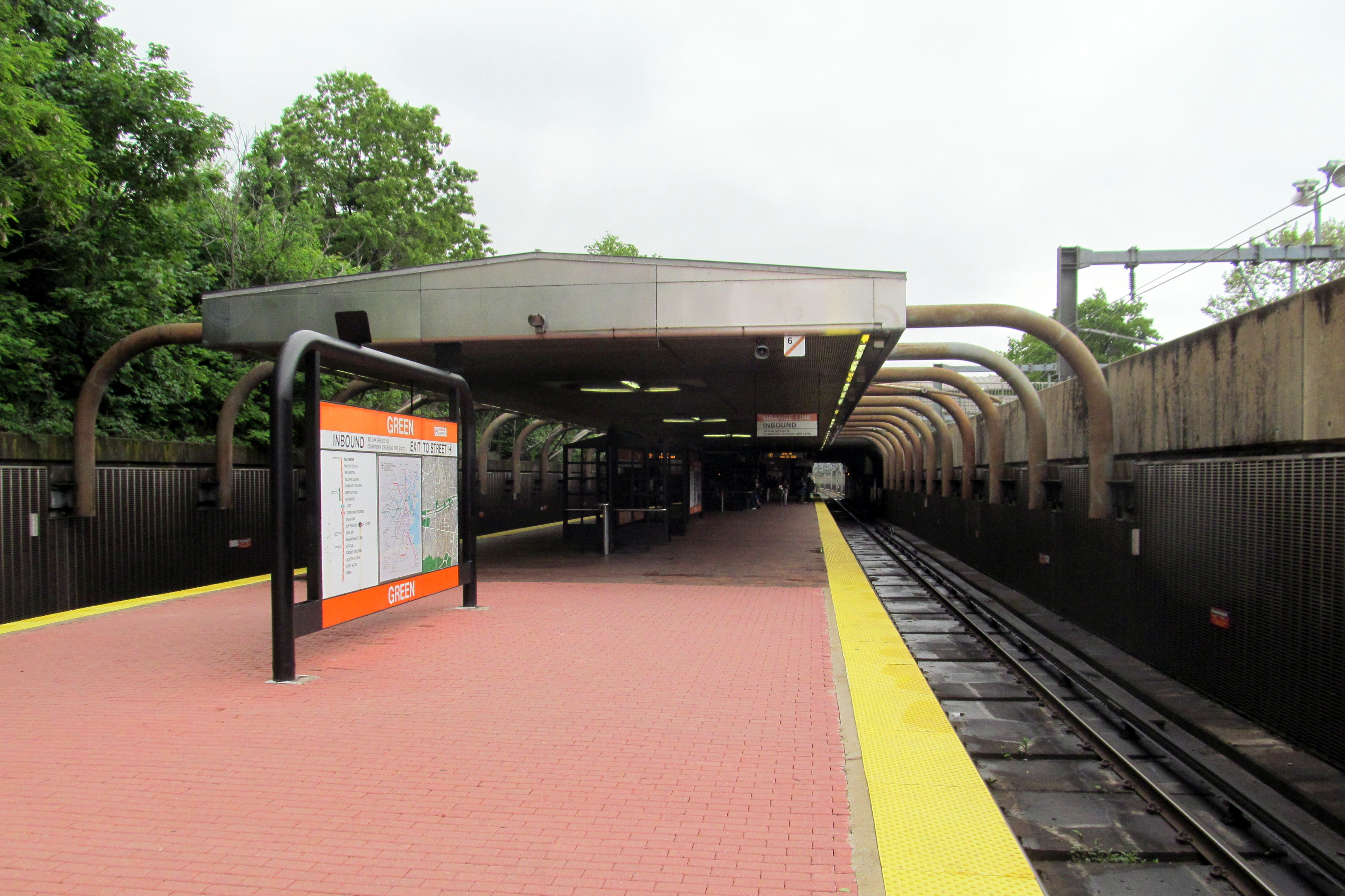 Green station in May 2012